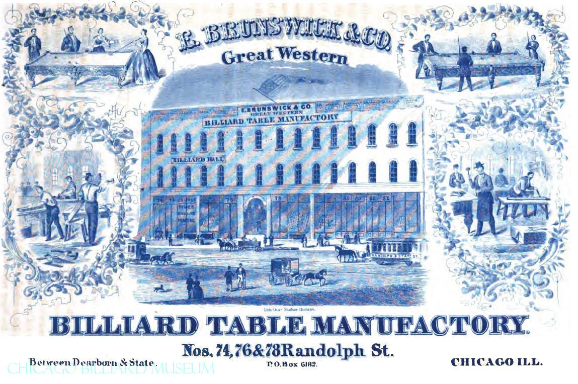 Advertisement of the "Emanuel Brunswick & Co." in 1862